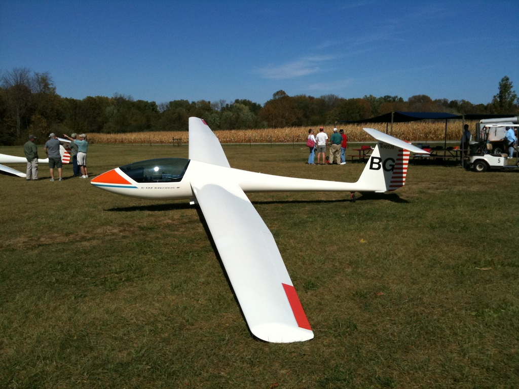 Grob G102 Standard Astir III ready for flight.